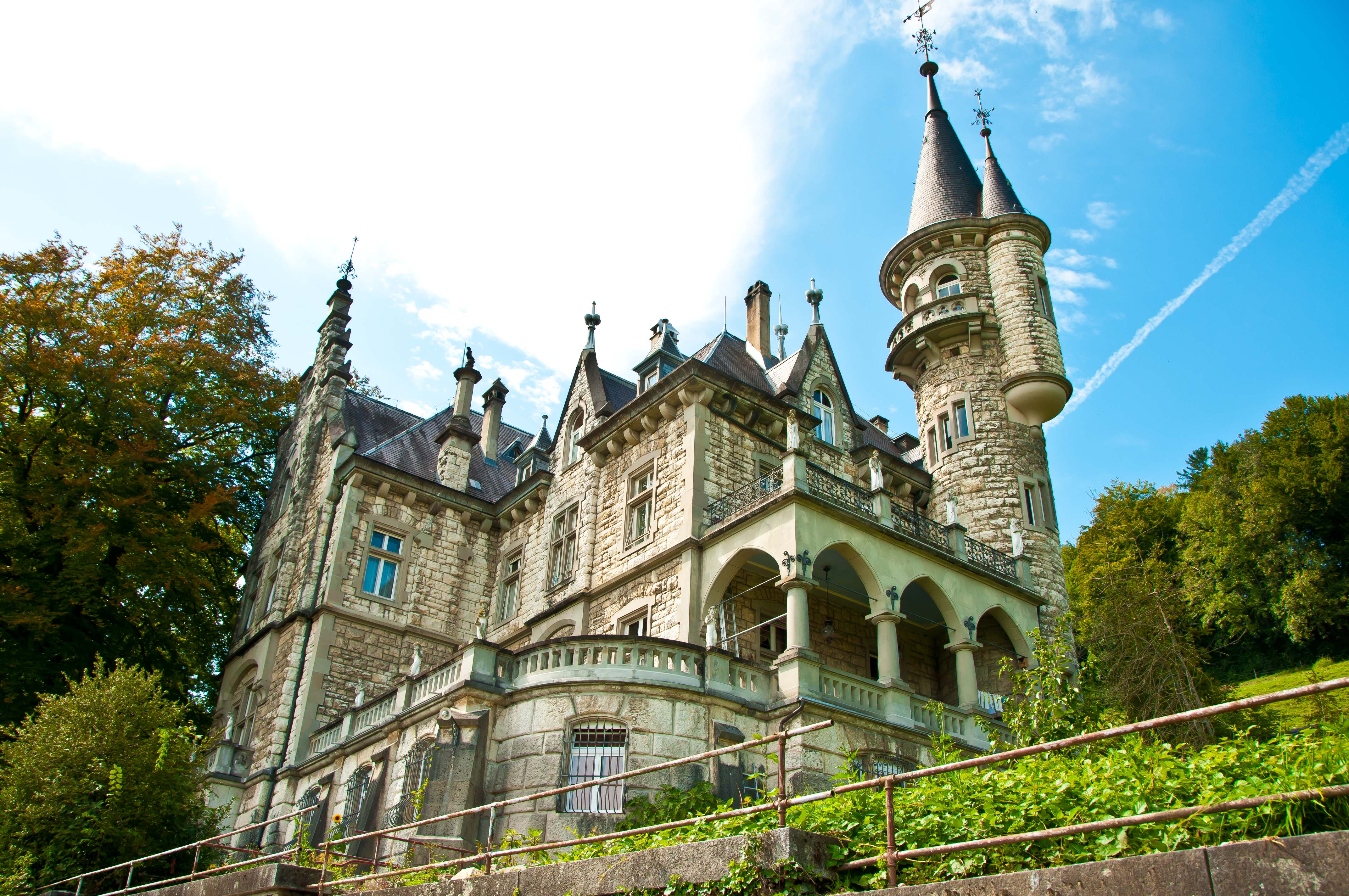 Schloss Wart, Neftenbach